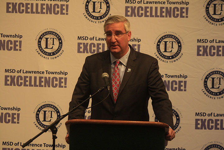 Eric Holcomb, Lieutenant Governor of Indiana, gives statement at a press conference after a gubernatorial debate for 2016 Indiana gubernatorial election at awrence North High School, Indianapolis.